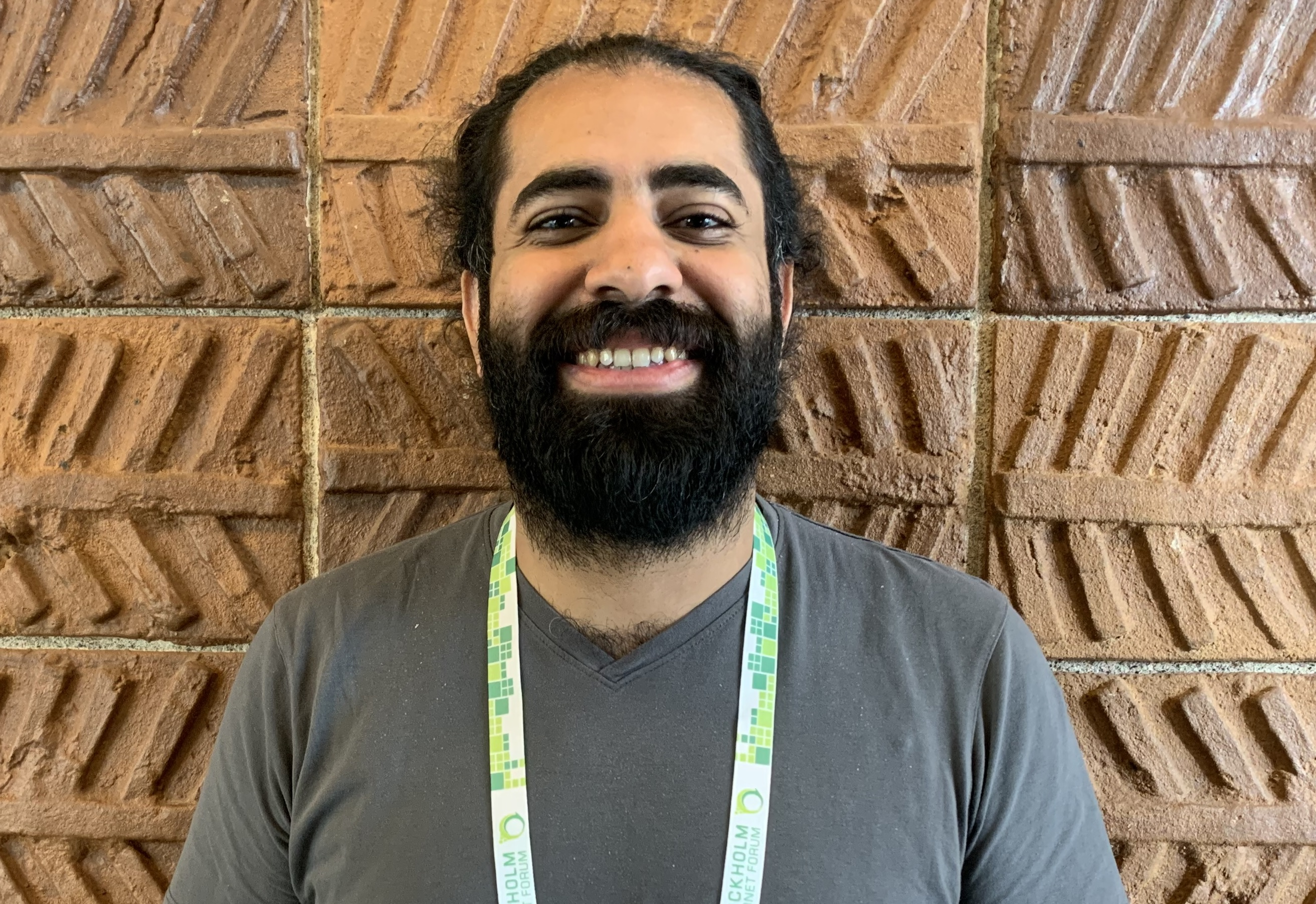 صورة لمحمد المسقطي في منتدى الانترنت باستوكهولم في ماي 2019